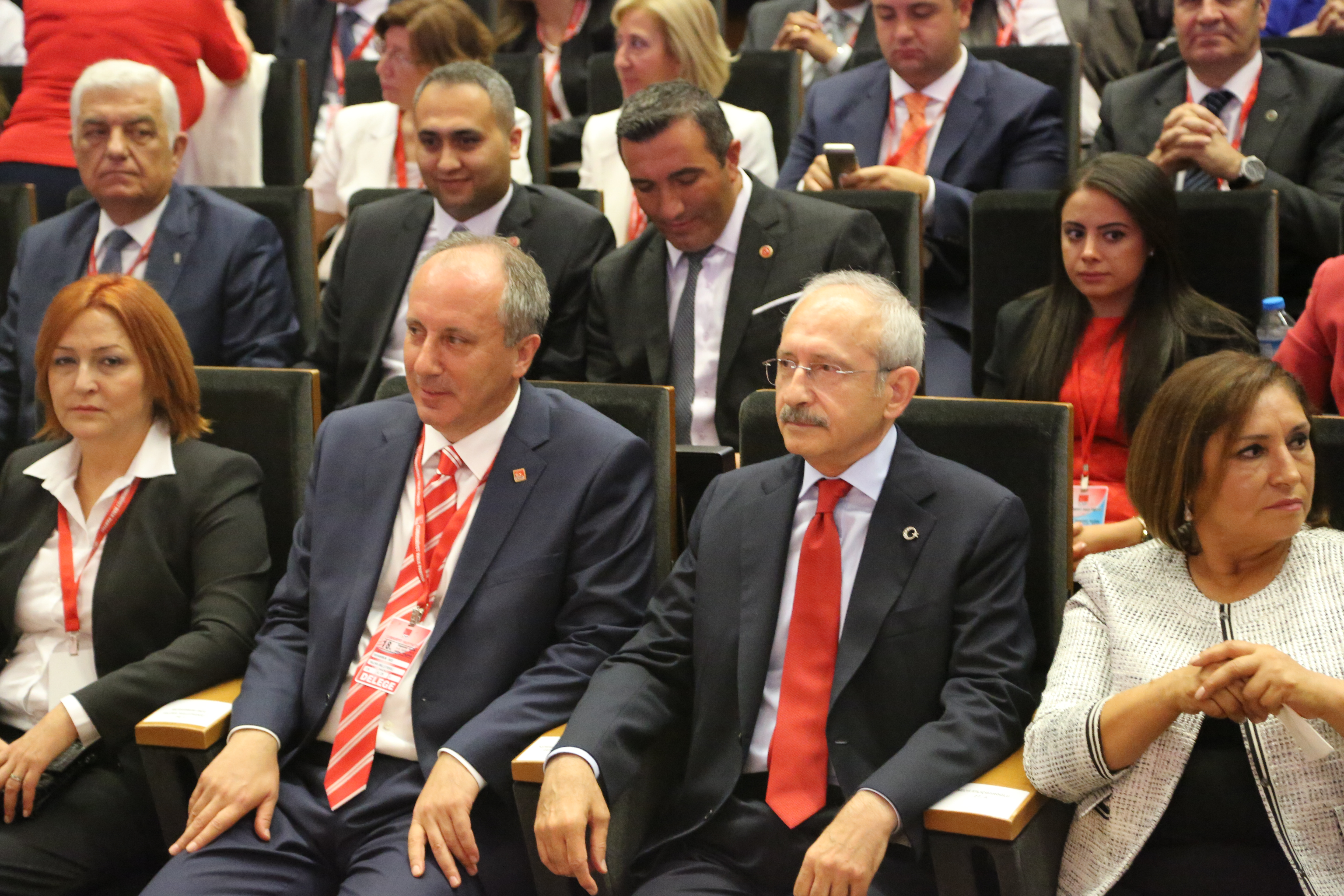 CHP leadership candidates Muharrem İnce, Kemal Kılıçdaroğlu and their wives at the September 2014 Republican People's Party extraordinary convention